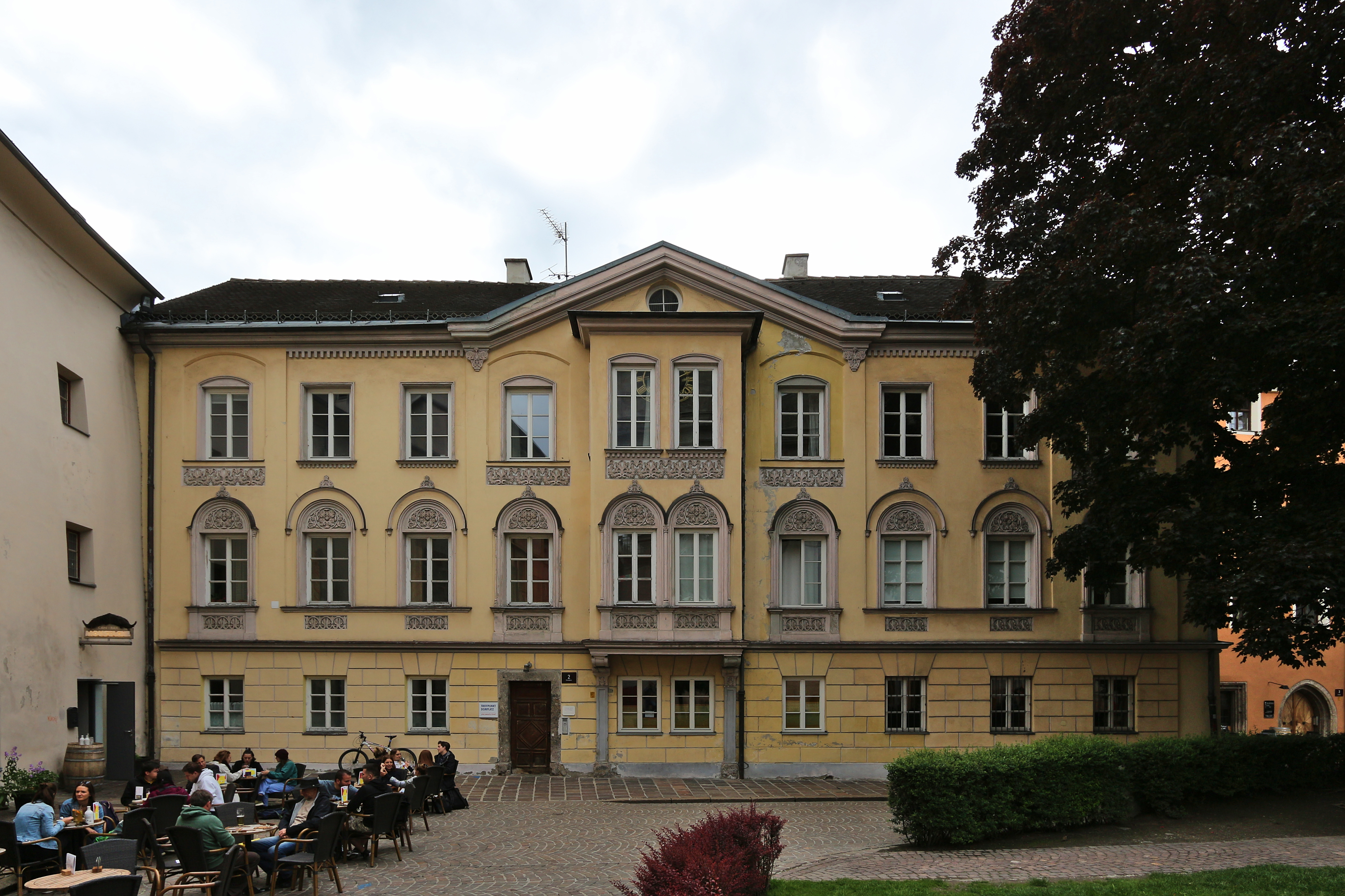 Domplatz 2 This media shows the remarkable cultural object in the Austrian state of Tyrol listed by the Tyrolean Art Cadastre with the ID 83608. (on tirisMaps, pdf, more images on Commons, Wikidata)